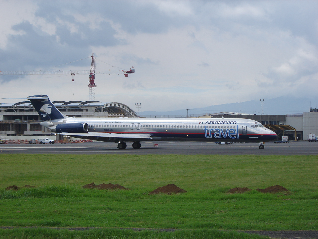 Aeromexico Travel MD-83 landing in SJO